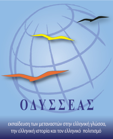 Logo INEDIVIM Odysseas